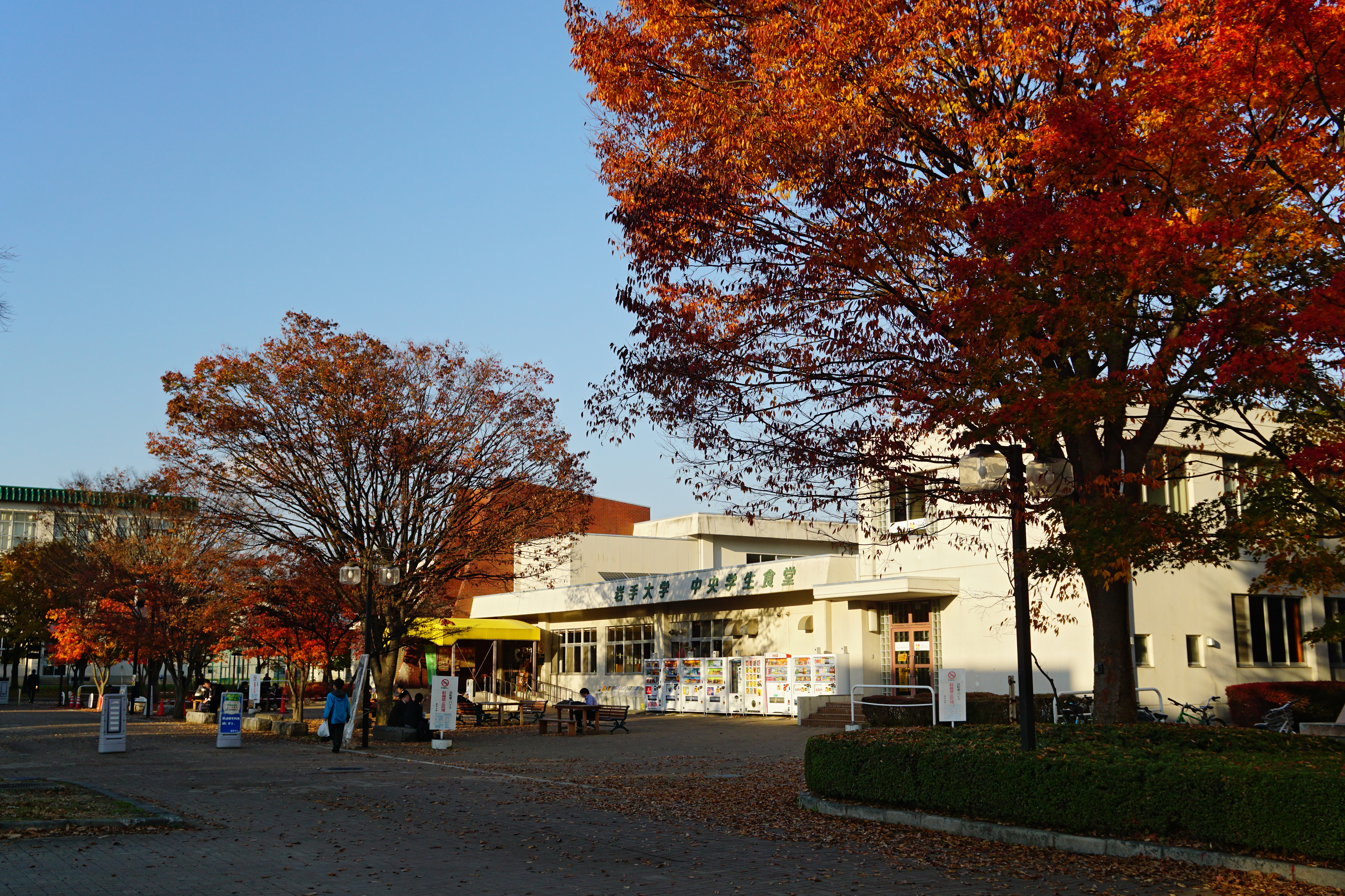 Iwate_University in Morioka, Iwate prefecture, Japan